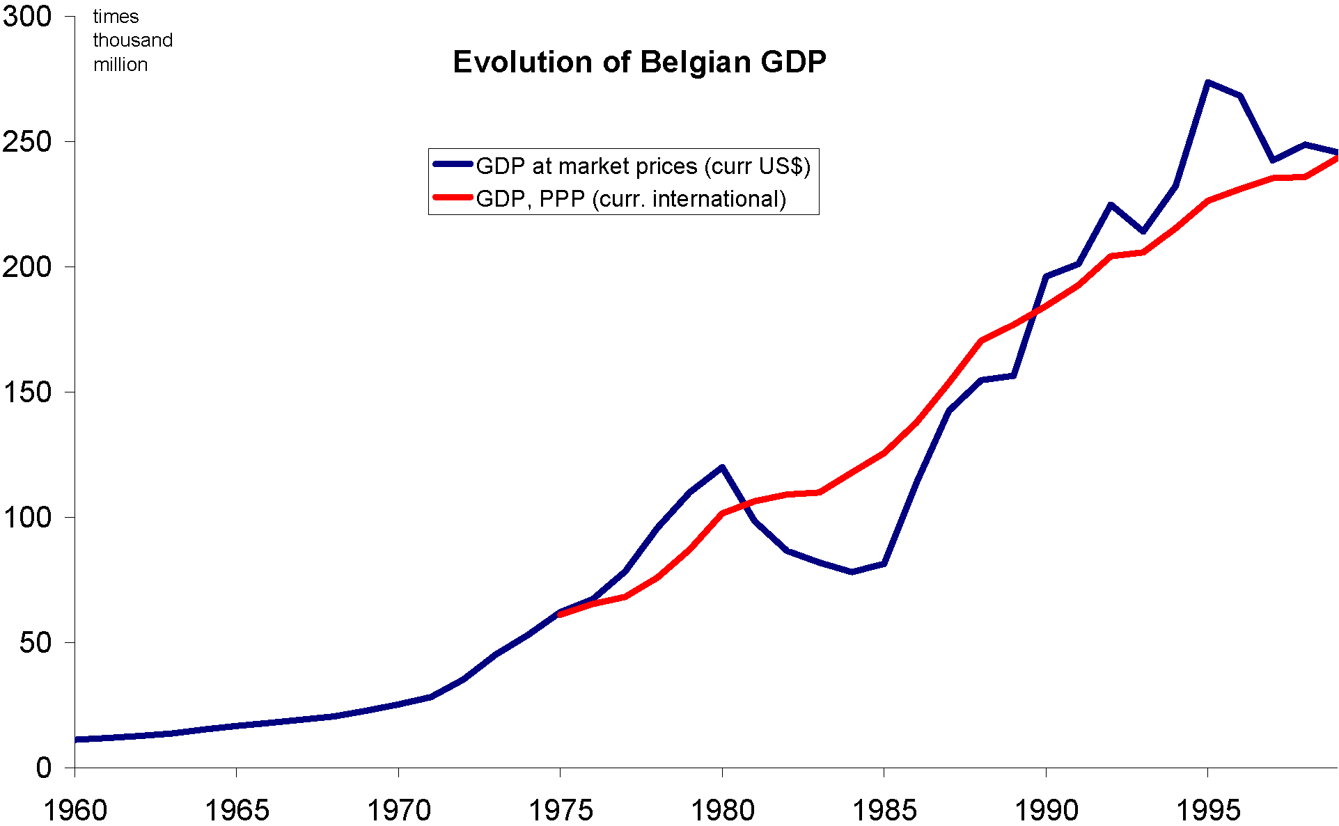 Evolution_of_Belgian_GDP Source:Global Development Finance & World Development Indicators